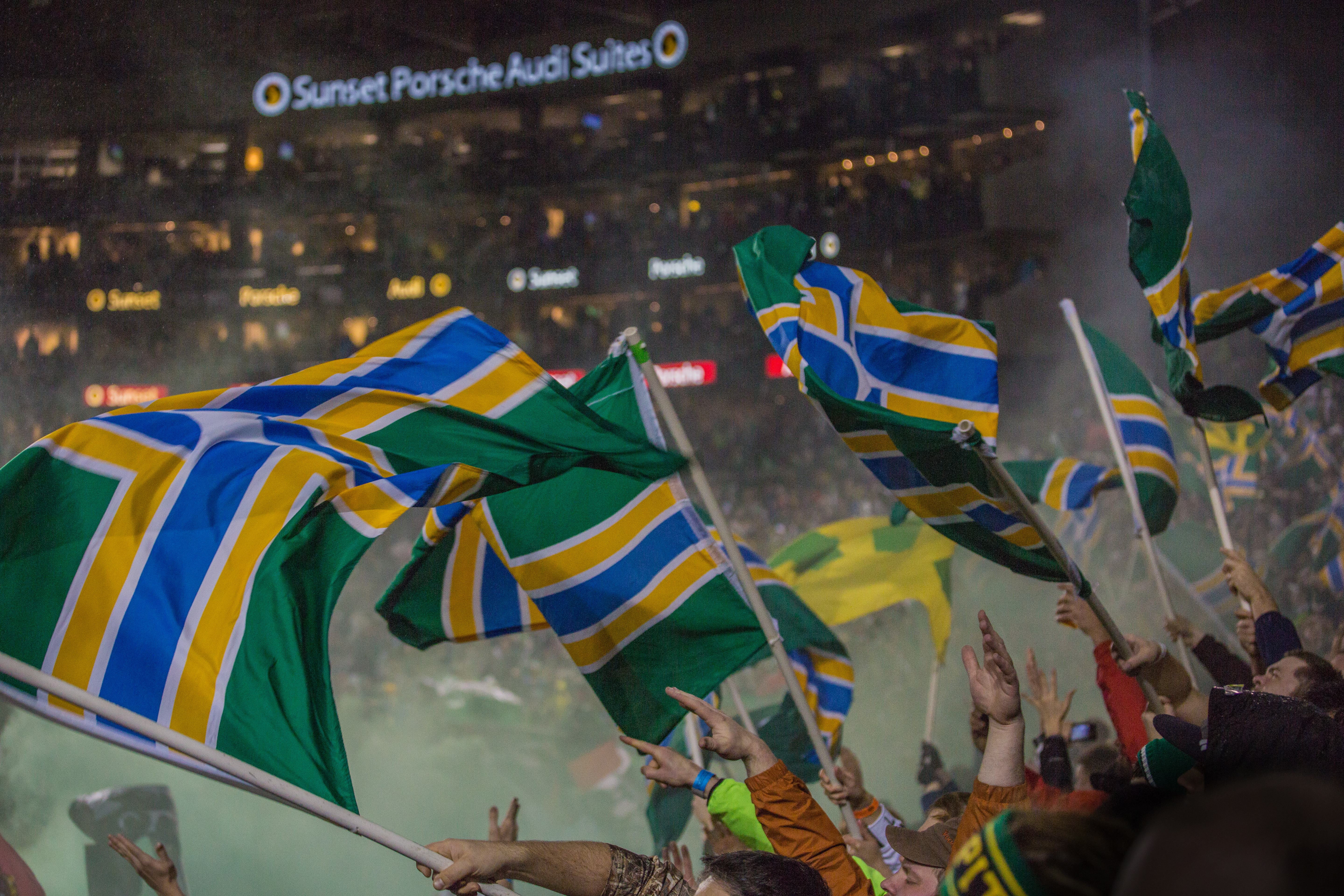 Fans waving Portland, Oregon's city flag at a Portland Timbers MLS match.